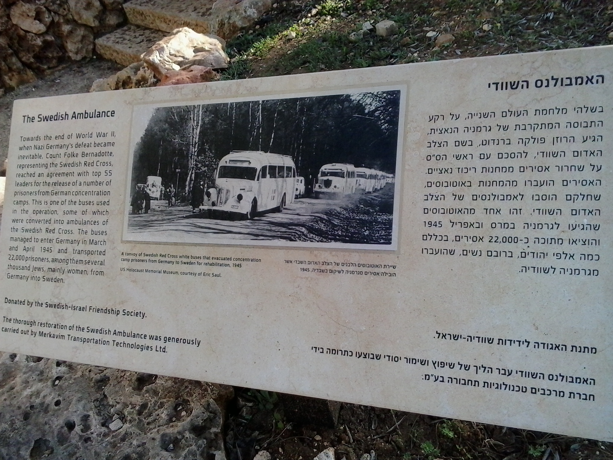 The plaque at Yad Vashem honoring the Swedish Ambulance